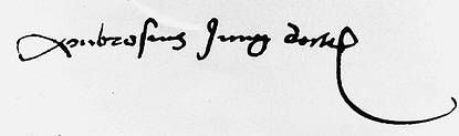 Autograph: Ambrosius Jung (senior) (1471 Ulm – 1548 Augsburg) was a German doctor & professor